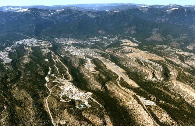 high southwest view aerial of Los Alamos Los Alamos National Laboratory (left) and Los Alamos townsite (middle and right)